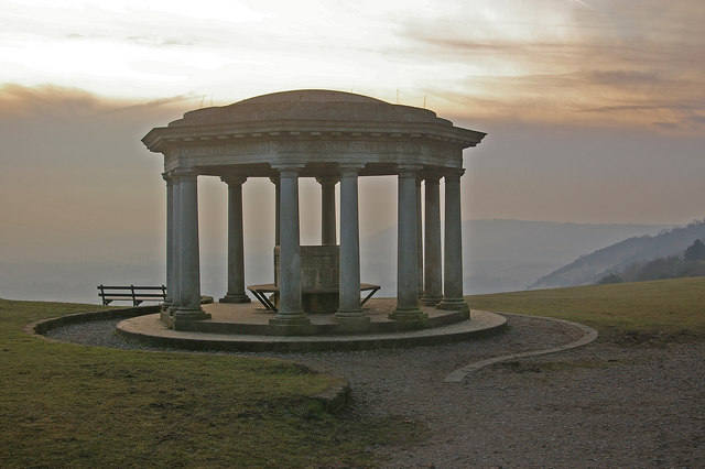 Inglis Memorial, Colley Hill Donated to the Borough of Reigate in 1909 by Lieutenant Colonel Sir Robert William Inglis VC. It was originally a drinking fountain for horses, standing at the top of the original main route over Reigate Hill. Now restored, it houses a viewpoint indicator. This photo, taken on a winter evening, is looking along the line of the North Downs to beyond Dorking.